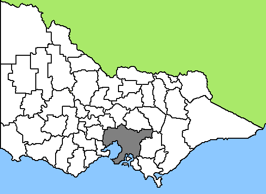 Map of the local government areas of Victoria/Australia w/o Melbourne (grey area); for the LGAs in Melbourne see separate map